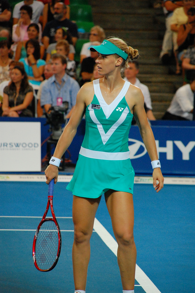 Elena Dementieva in action during Hopman Cup XXII 2010 in Perth, Australia.